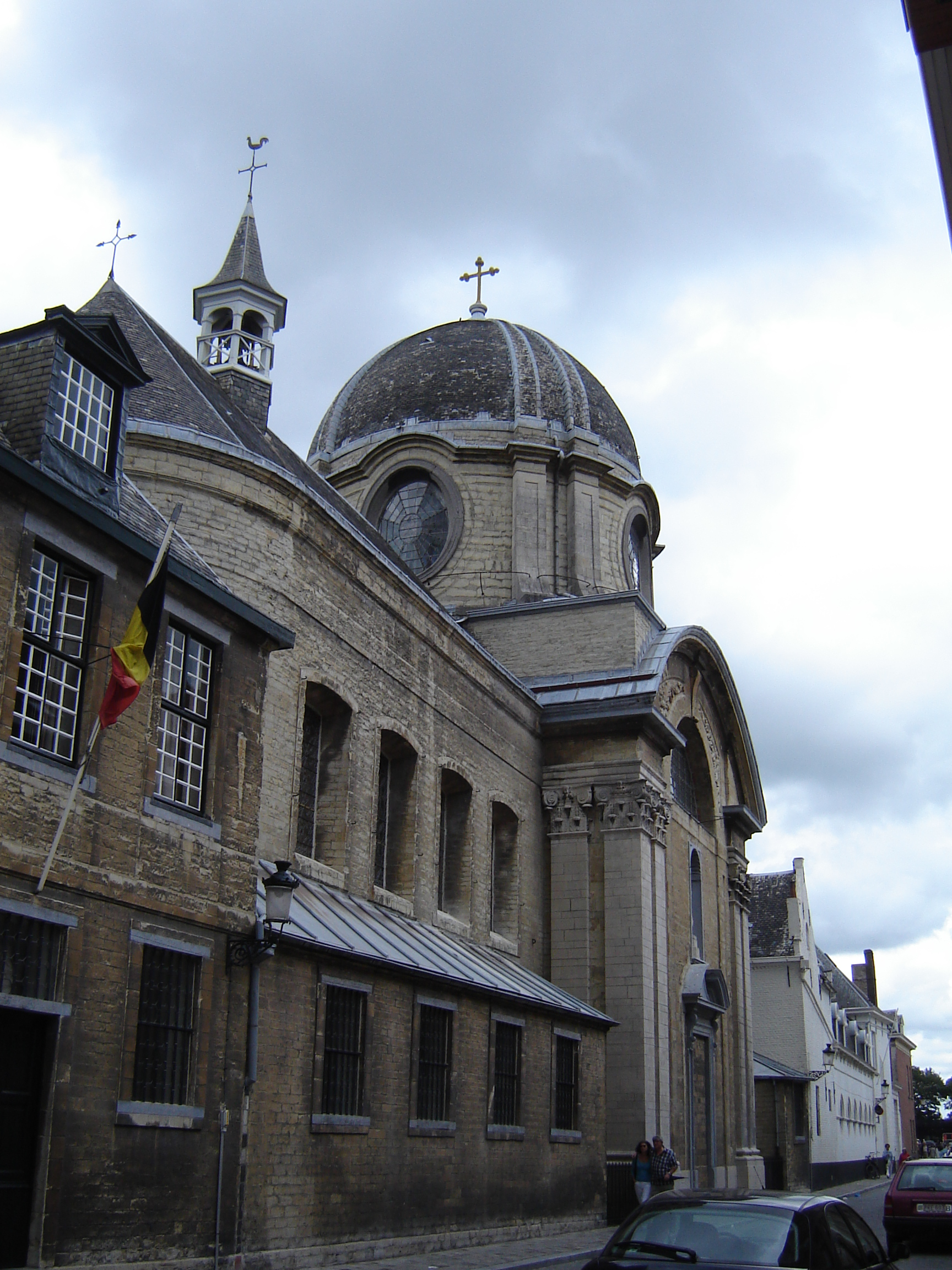 Church of English Convent, with typical dome. Brugge, West-Flanders, Belgium.